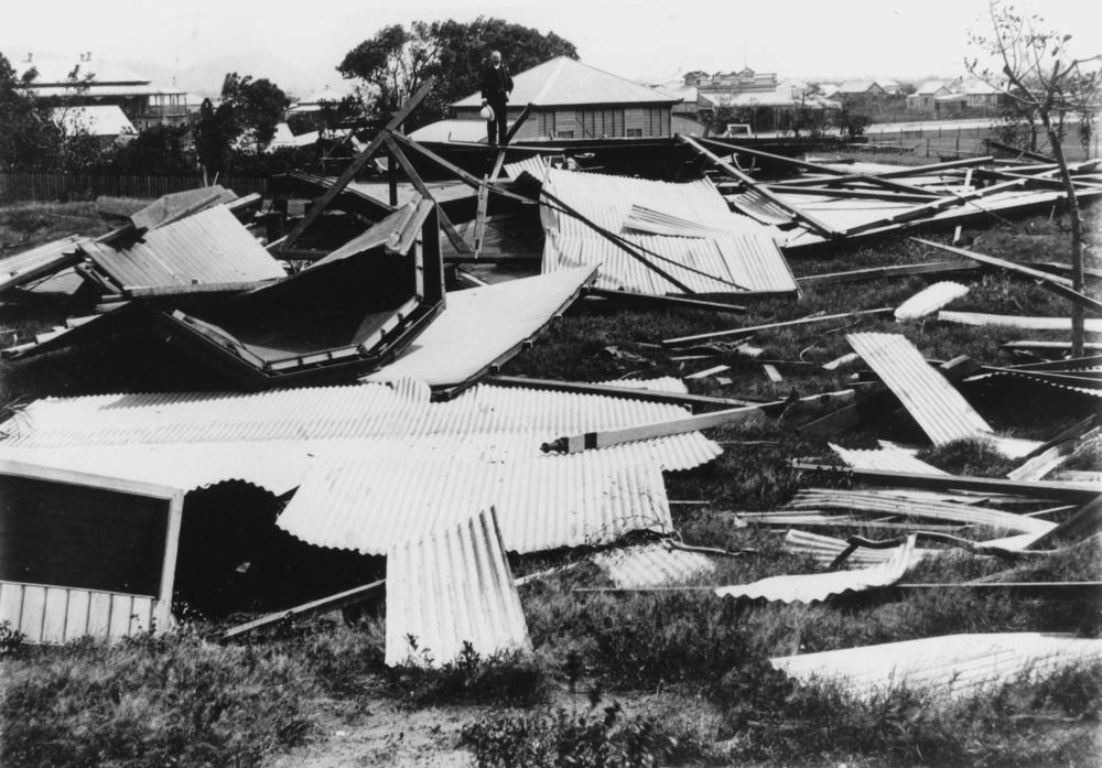 Remains of St. John's Church, Townsville, which was destroyed by Cyclone 'Leonta' in 1903. Cyclone 'Leonta' struck Townsville on the 9th March, 1903. The debris in this picture was formerly St. John's Church. Reverend Goodchild surveys the destruction. [Description supplied with photograph].